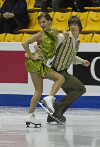 Alisa AGAFONOVA and Dmitri DUN (UKR) Grand Prix Final 2008 – Juniors, Dance. OD - Rhythms of the 1920s, 1930s, and 1940s